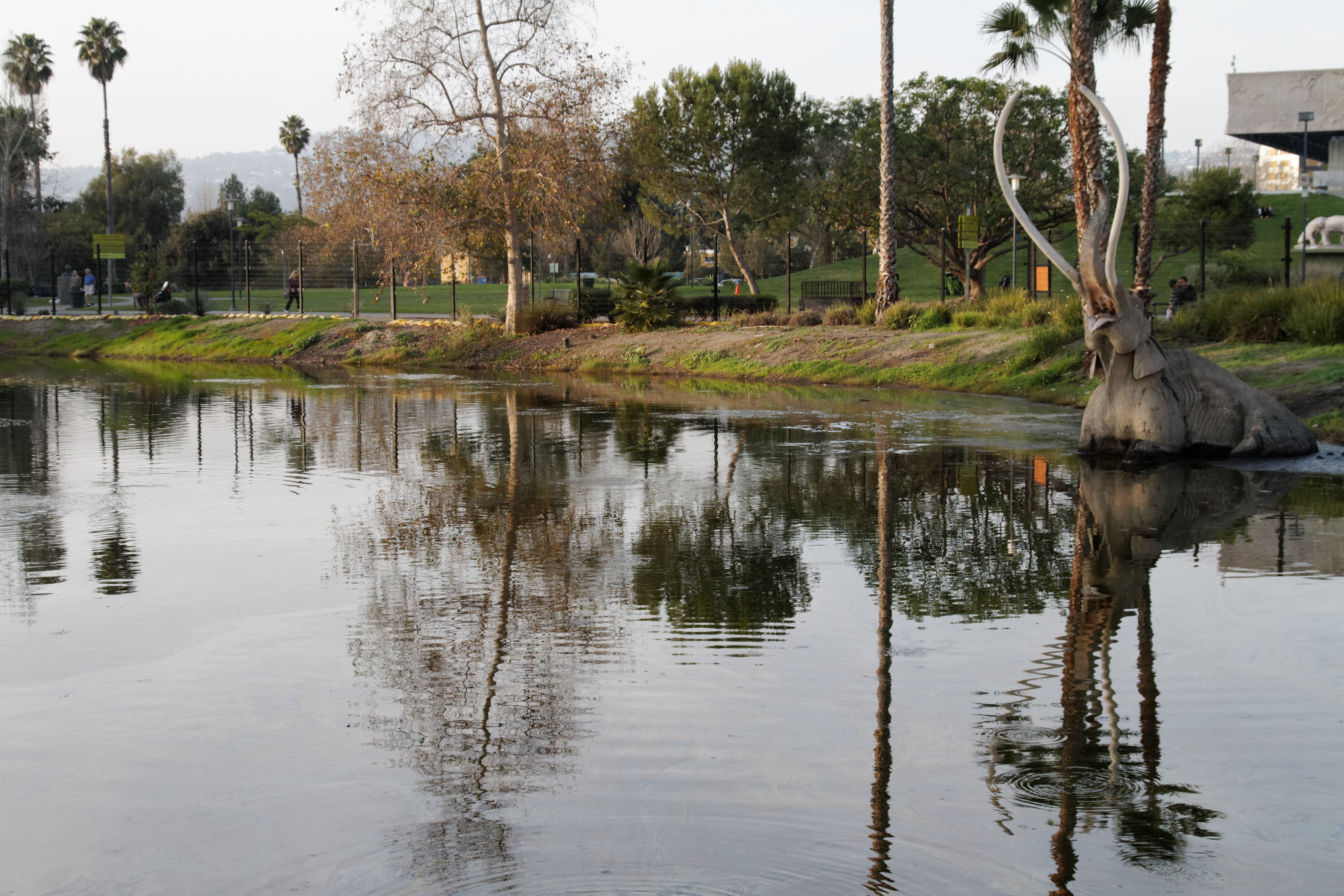 La Brea Tar Pits